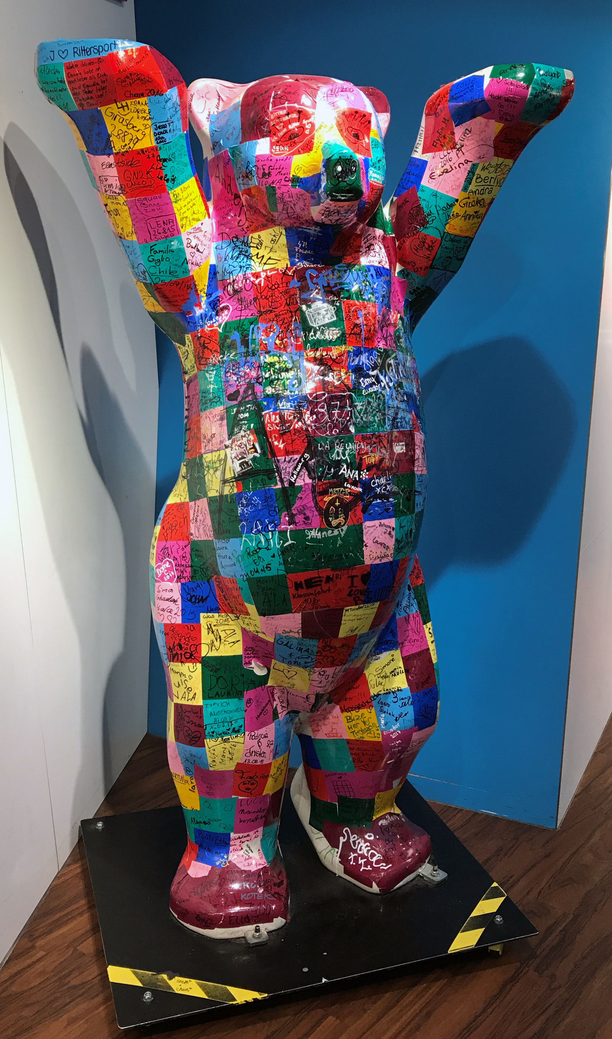 Buddy Baer, Trops, Französische Straße 24, Berlin-Mitte, Germany